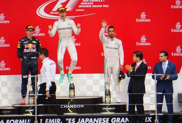 Formula One 2016 Rd.17 Japanese GP: Podium